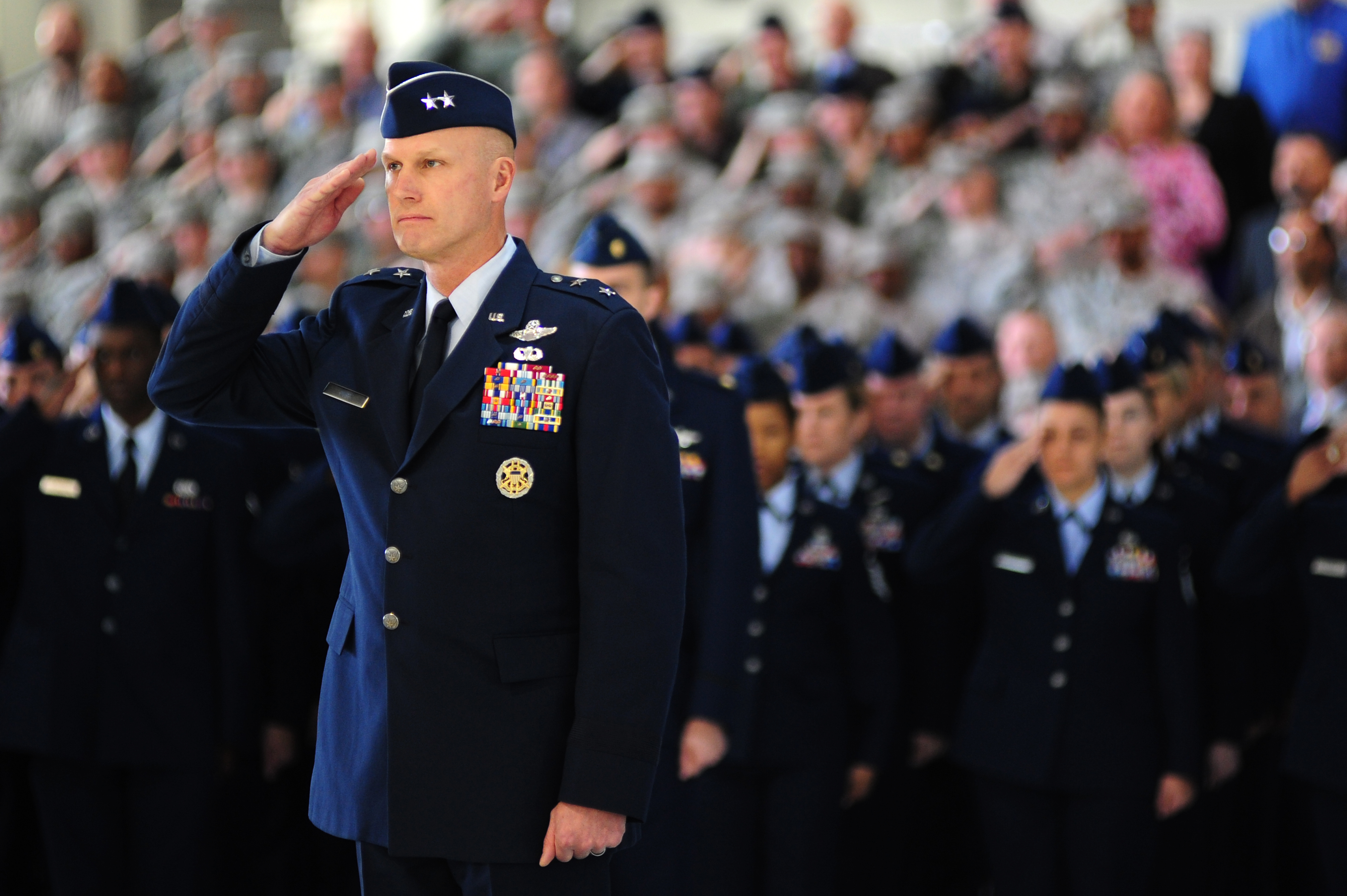 U.S. Air Force Maj. Gen. James N. Post III, vice commander of Air Combat Command, and Airmen render salutes during the playing of the National Anthem during the ACC change of command ceremony at Langley Air Force Base, Va., Nov. 4, 2014. Gen. Herbert "Hawk" Carlisle assumed command from Gen. Mike Hostage. (U.S. Air Force photo by Airman 1st Class Areca T. Wilson/Released) (Photo was cropped and contrasted for effect)